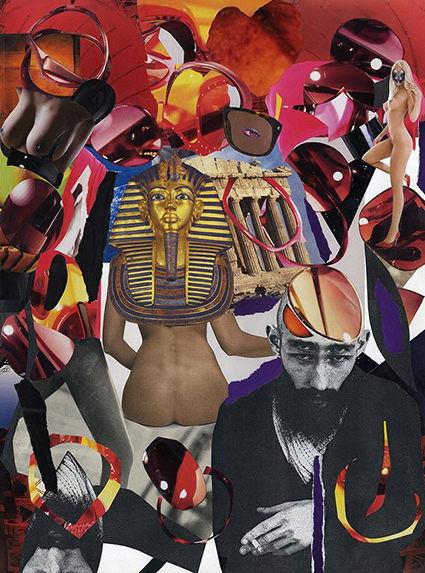 A photo collage by Imants Daksis